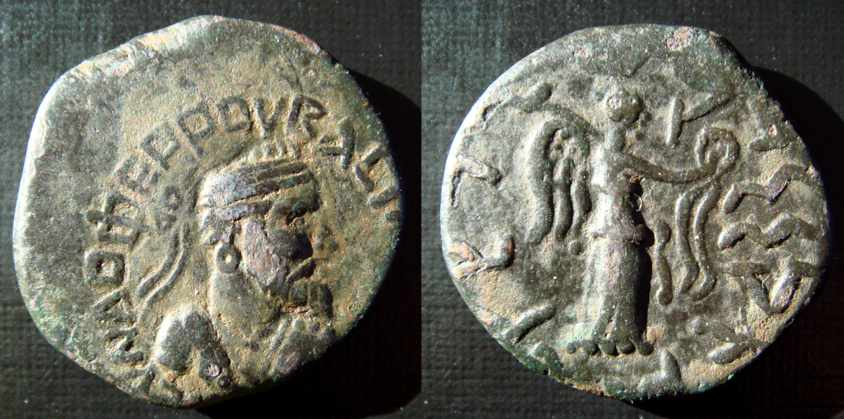 Coin of Gondophares. Personal photograph 2007.